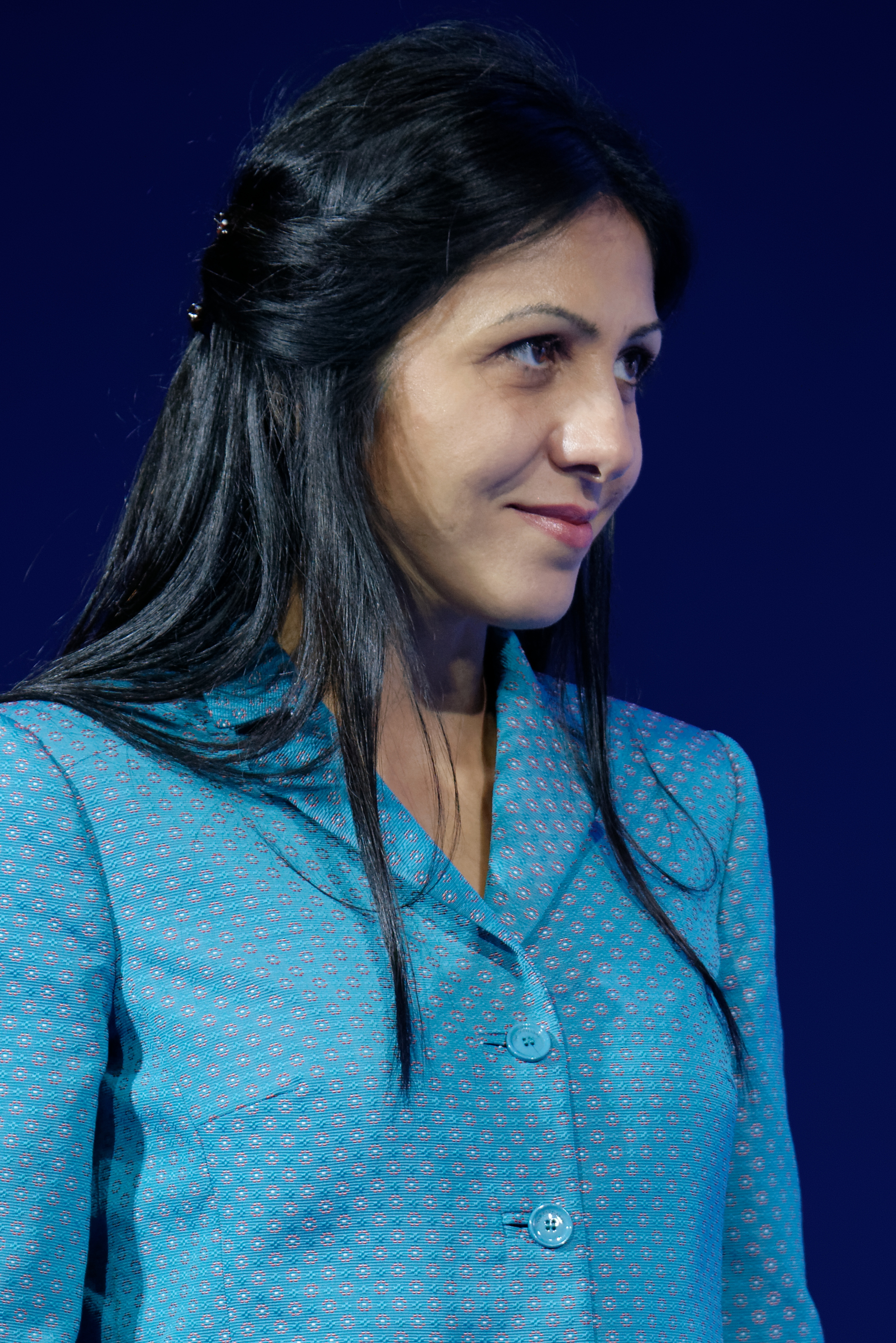 Karina Aznavourian at the medal ceremony of the women's épée event at the 2015 World Fencing Championships on 15 July 2015 at the Olympic Stadium in Moscow.